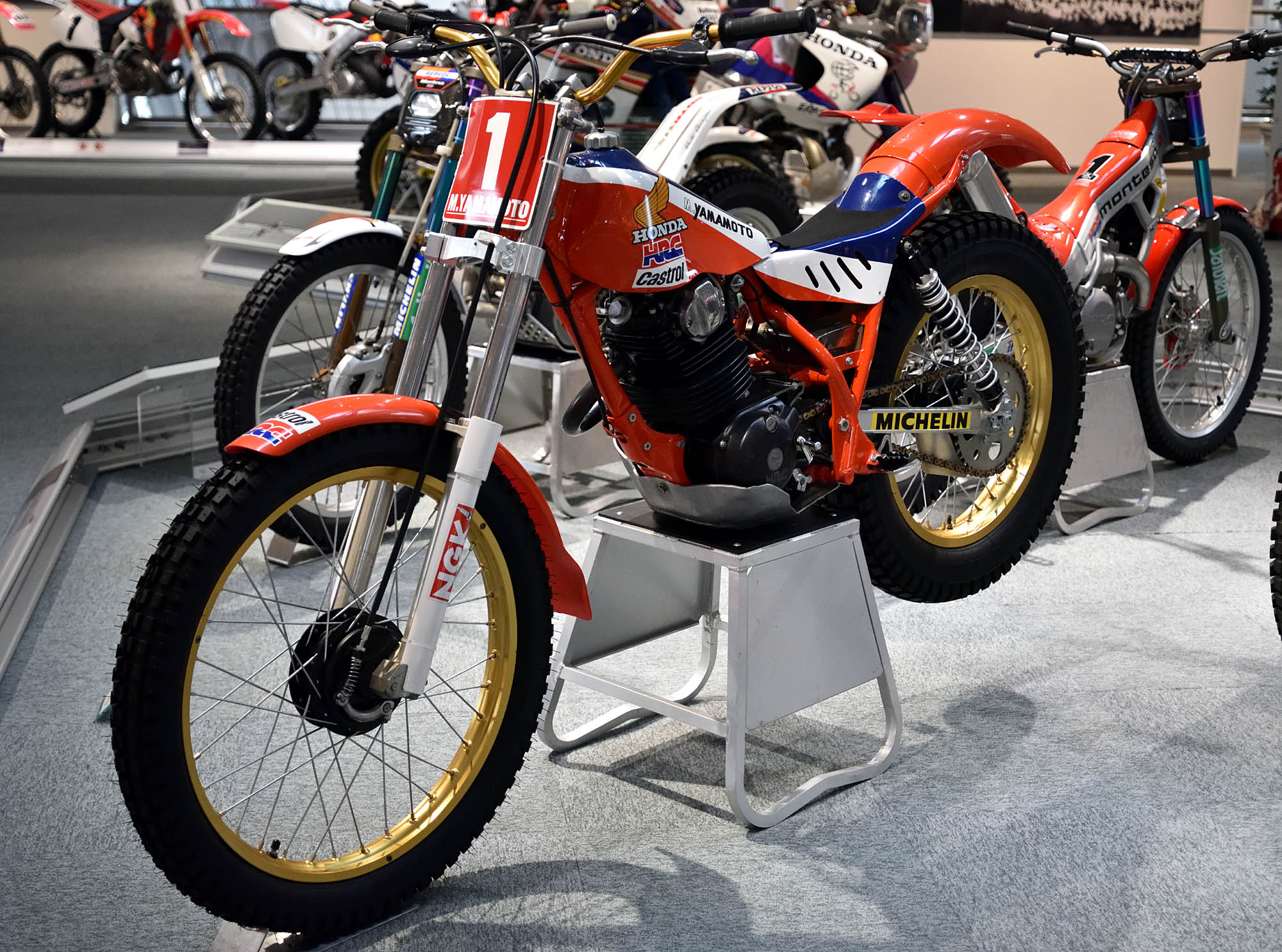 Honda RS250T (1983 All-Japan Trials Championship, Masaya Yamamoto)